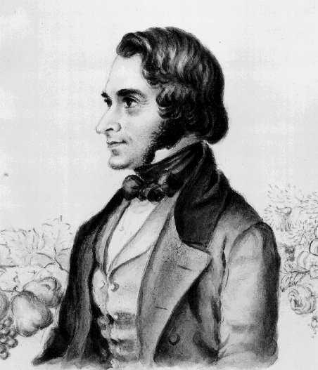 Contemporary portrait of Andrew Jackson Downing (1815-1852), noted American landscape designer and author of an influential architectural pattern book. Copyright has long since expired on this image